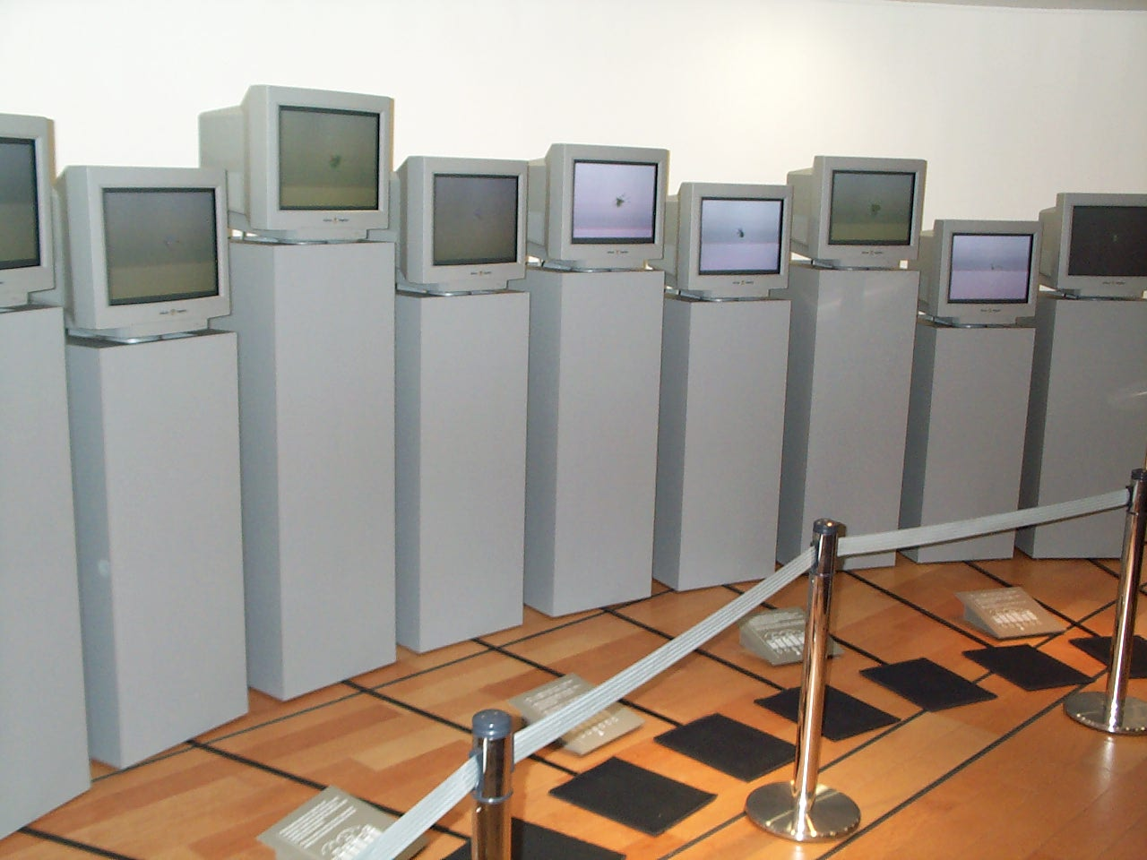 Galápagos, installation by Karl Sims, at the NTT InterCommunication Center. Each monitor displayed a 3D creature created by artifical evolution. Viewers would step on the mats in front of the monitors to select which creatures would survive and be used in the next evolution step.